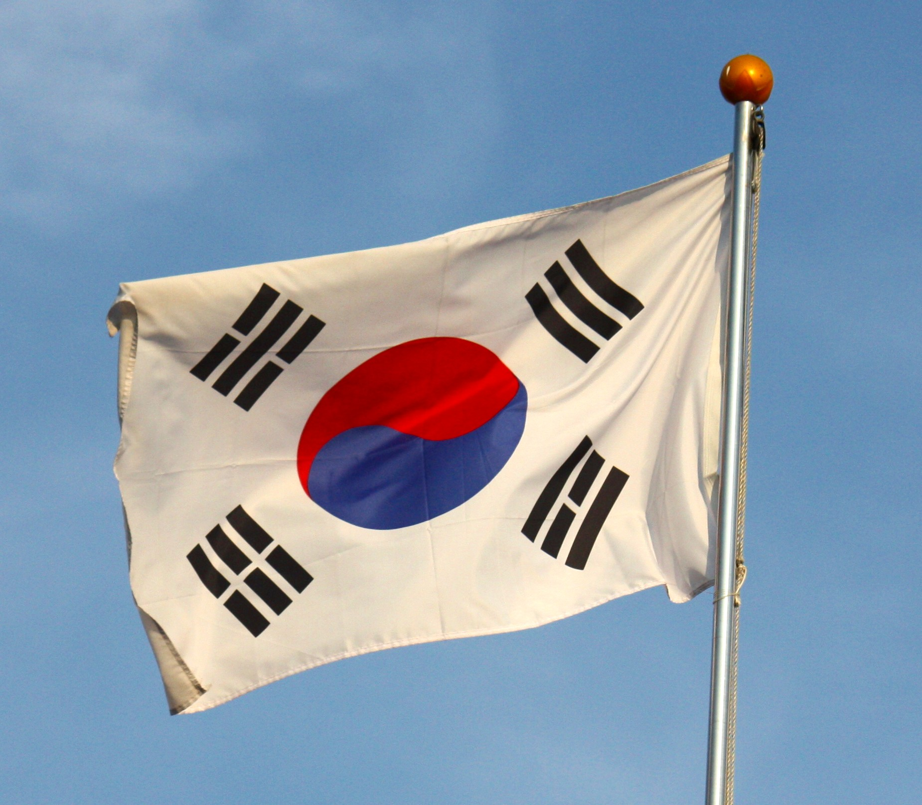 Flag of South Korea